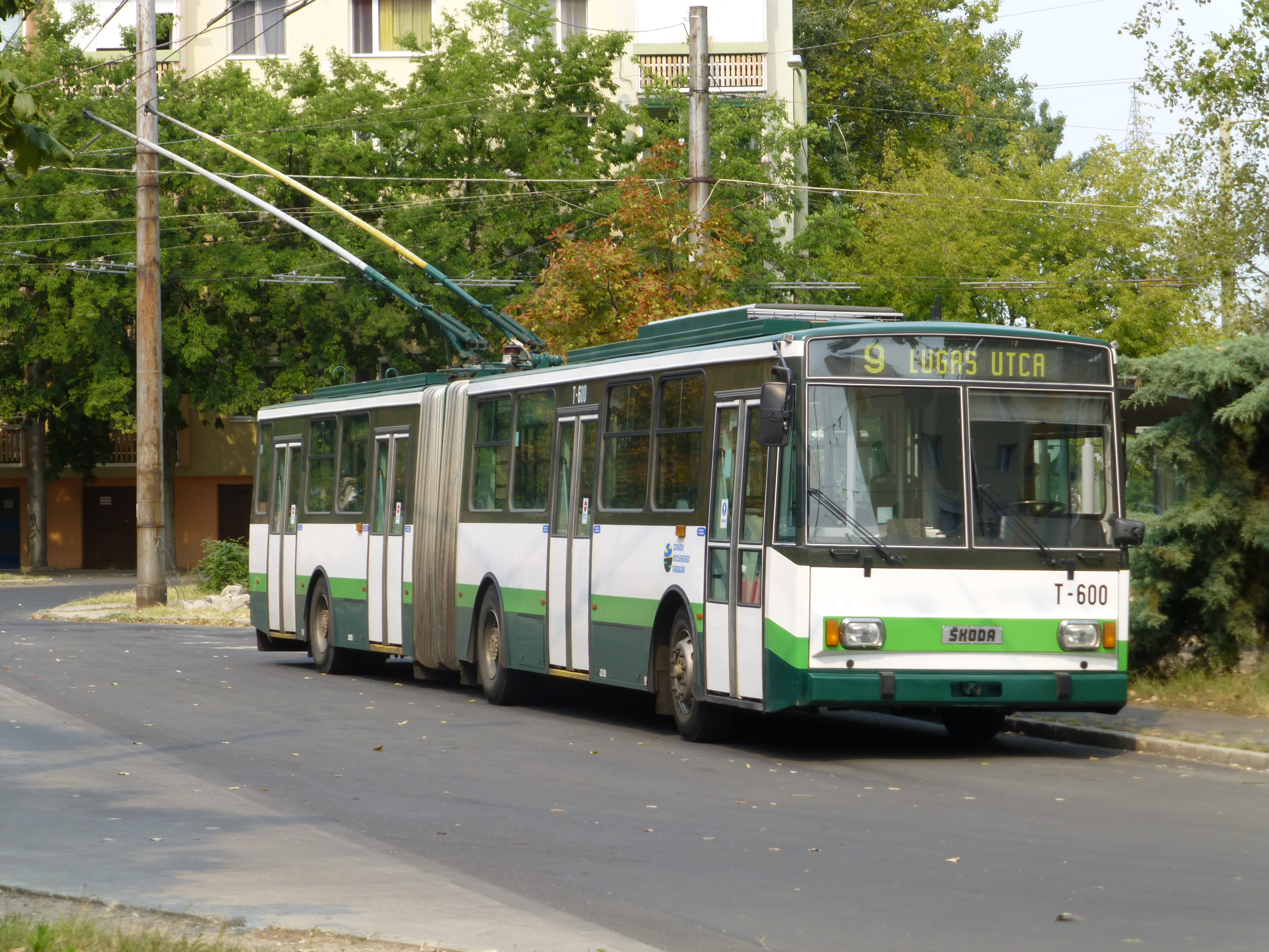 Trolley line 9 in Szeged.